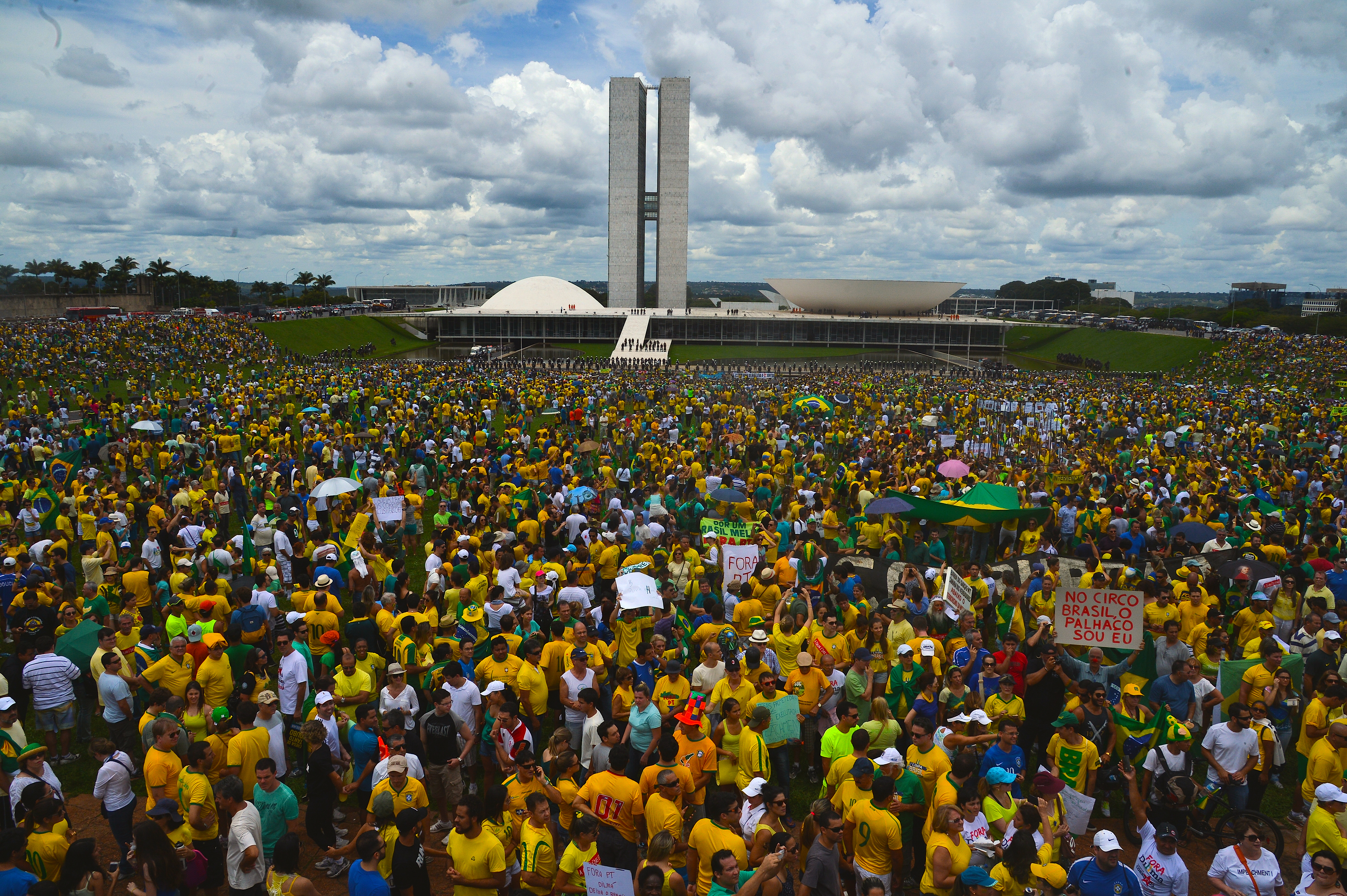 Demonstration in Brasília outside of the National Congress Building against Brazilian government corruption on 15 March 2015.